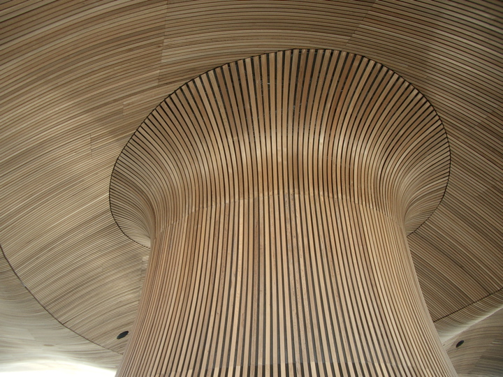 Wood interior Welsh AssemblyWelsh Assembly